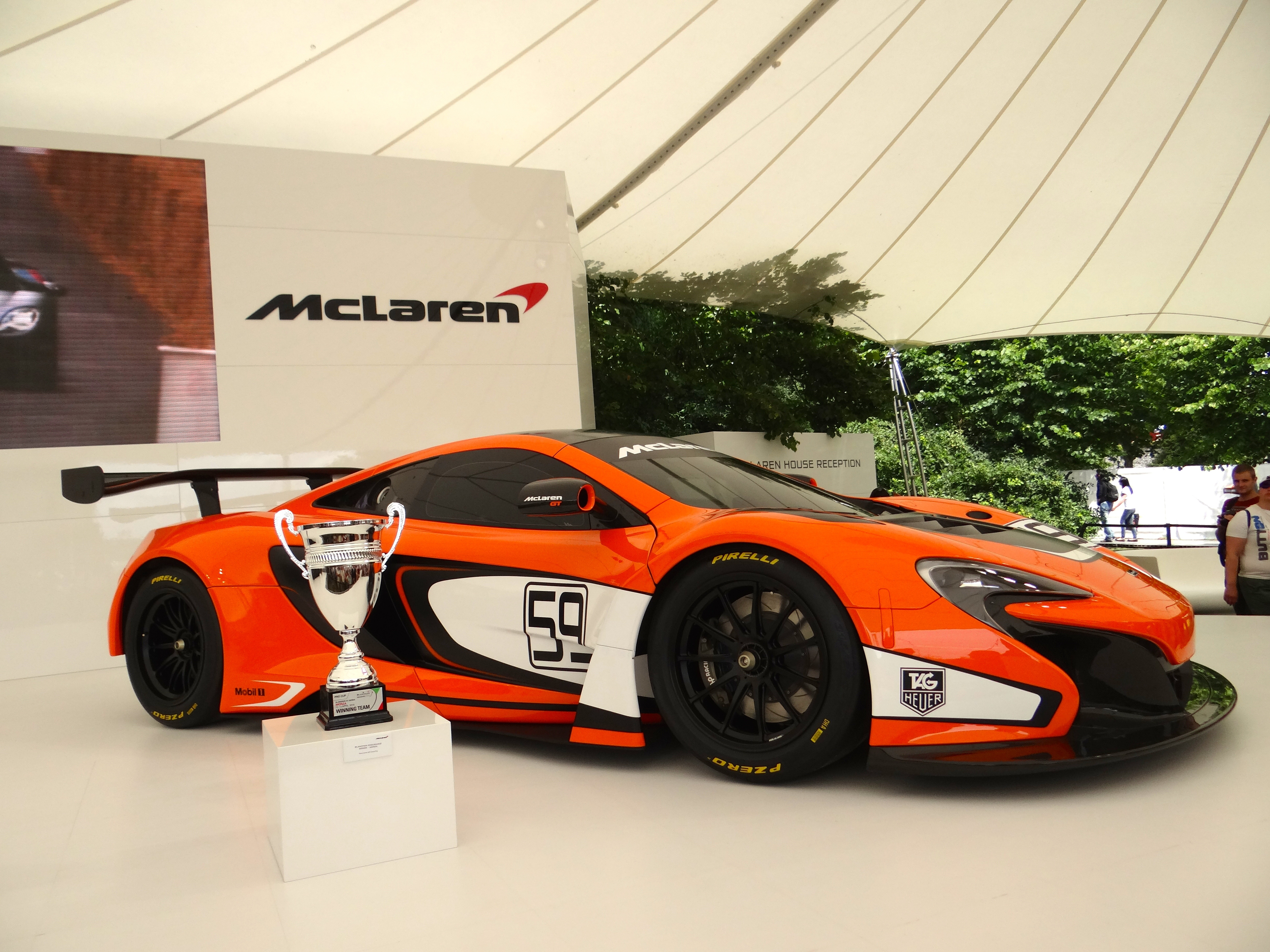 The 650S GT3 at the 2014 Goodwood Festival of Speed.